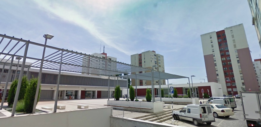 The main square in Miratejo, Corroios, Seixal, Portugal.